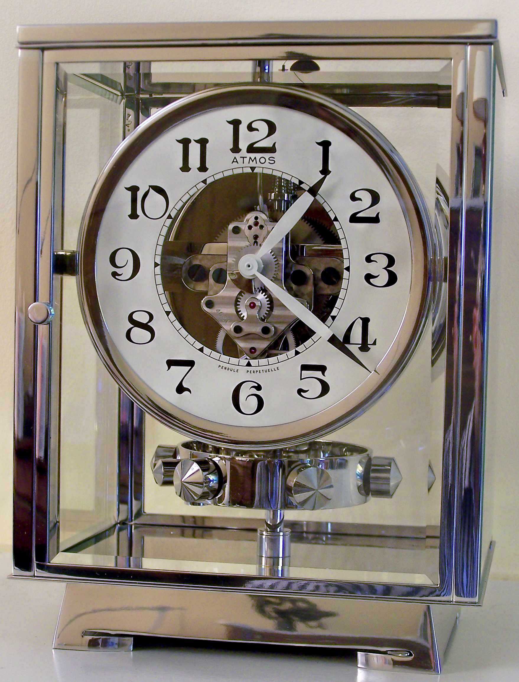 Desk clock Atmos Reutter Modèle RA2 n° 5042